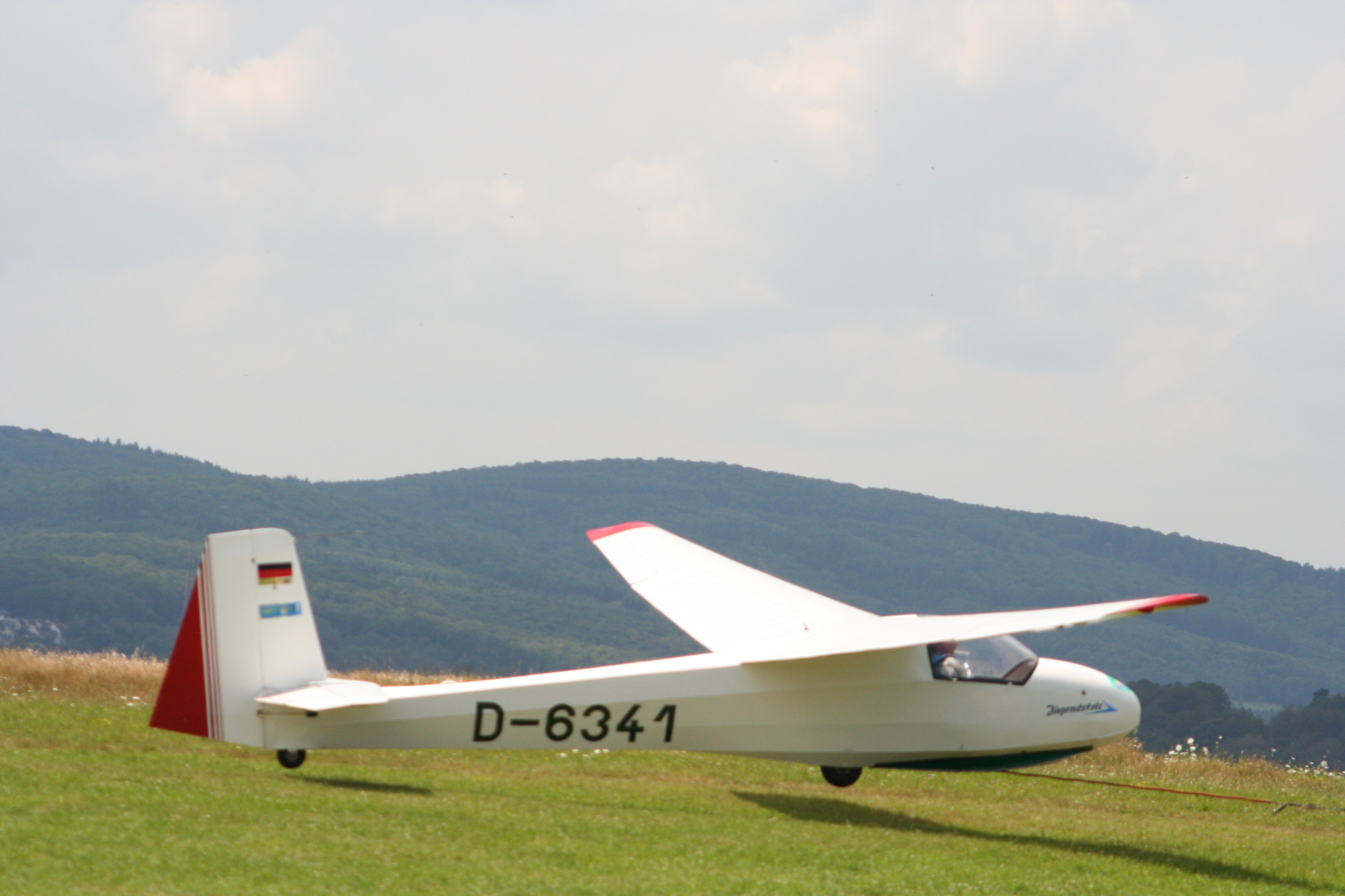 Glider Schleicher K 8